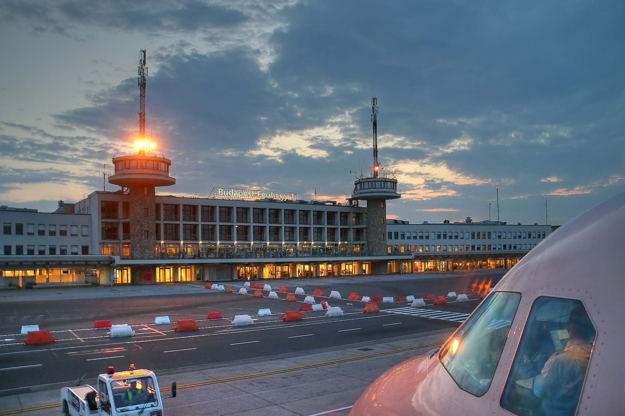 Airport Budapest, Ferihegy, Terminal 1. View from ramp. This is a photo of a monument in Hungary. Identifier: 1251